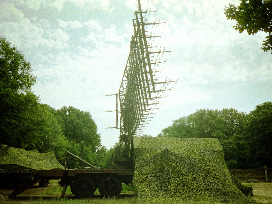 The Russian acquisition radar 1L13.